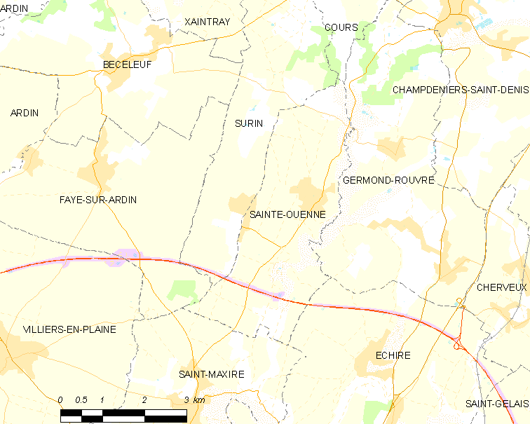 Map of French municipality Sainte-Ouenne